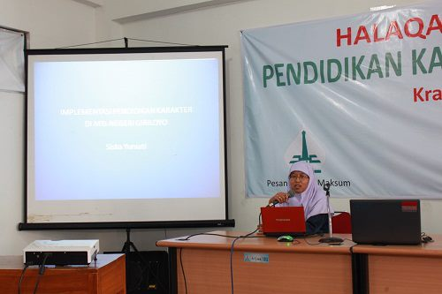 Siska Yuniati in character education seminar held by SMP Ali Maksum, Direktorat Jenderal Pendidikan Islam Kementerian Agama Republik Indonesia, and Pimpinan Pusat RMI. Yogyakarta (Indonesia).